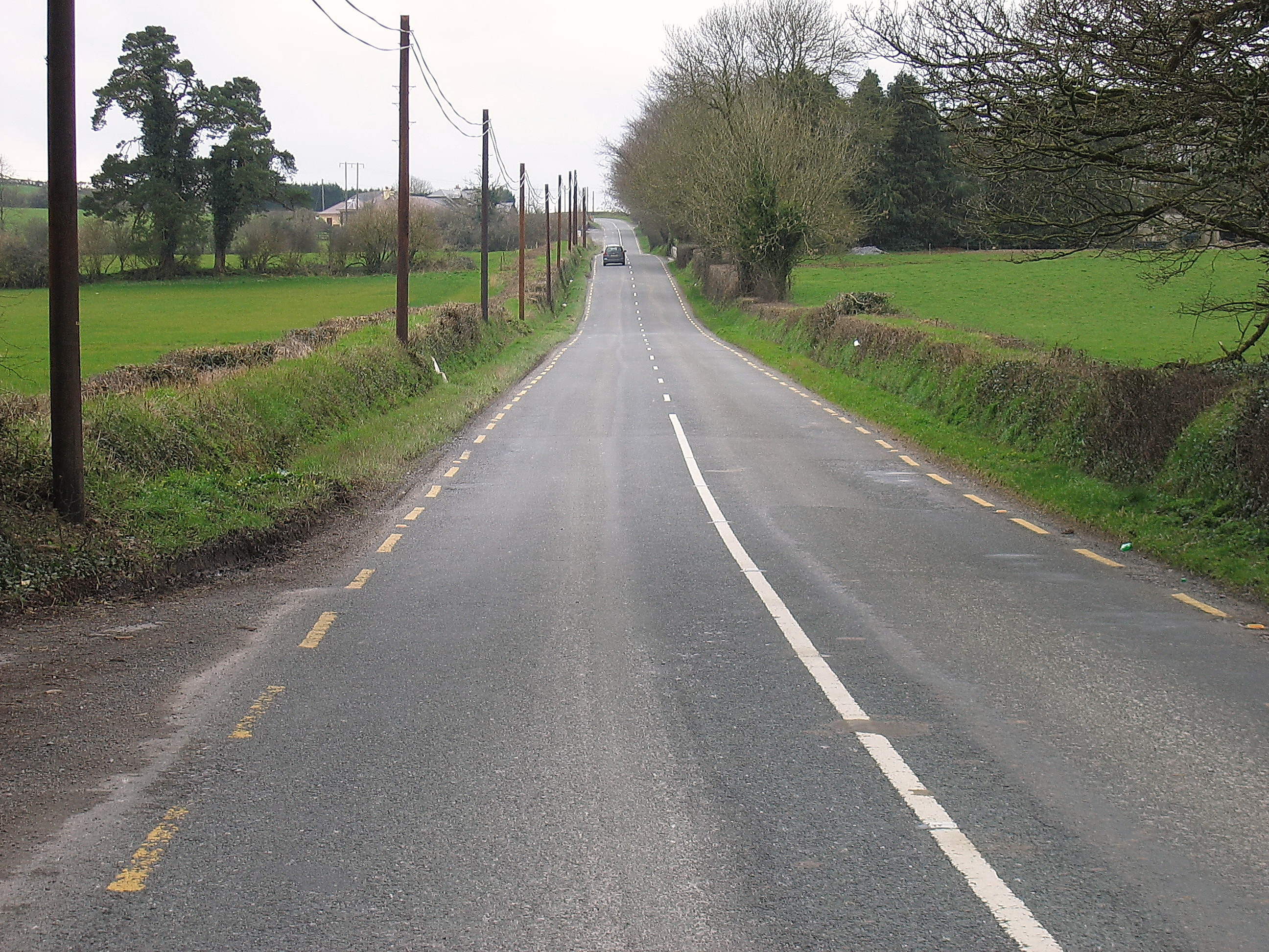 Near Dualla, County Tipperary, near to Rathclogh, Tipperary, Ireland. On the R691 west of Dualla heading towards Cashel.